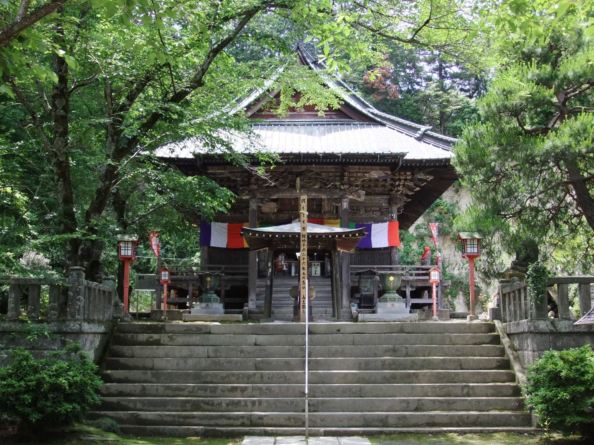 Shōbō-ji temple in Higashimatsuyama-shi, Saitama